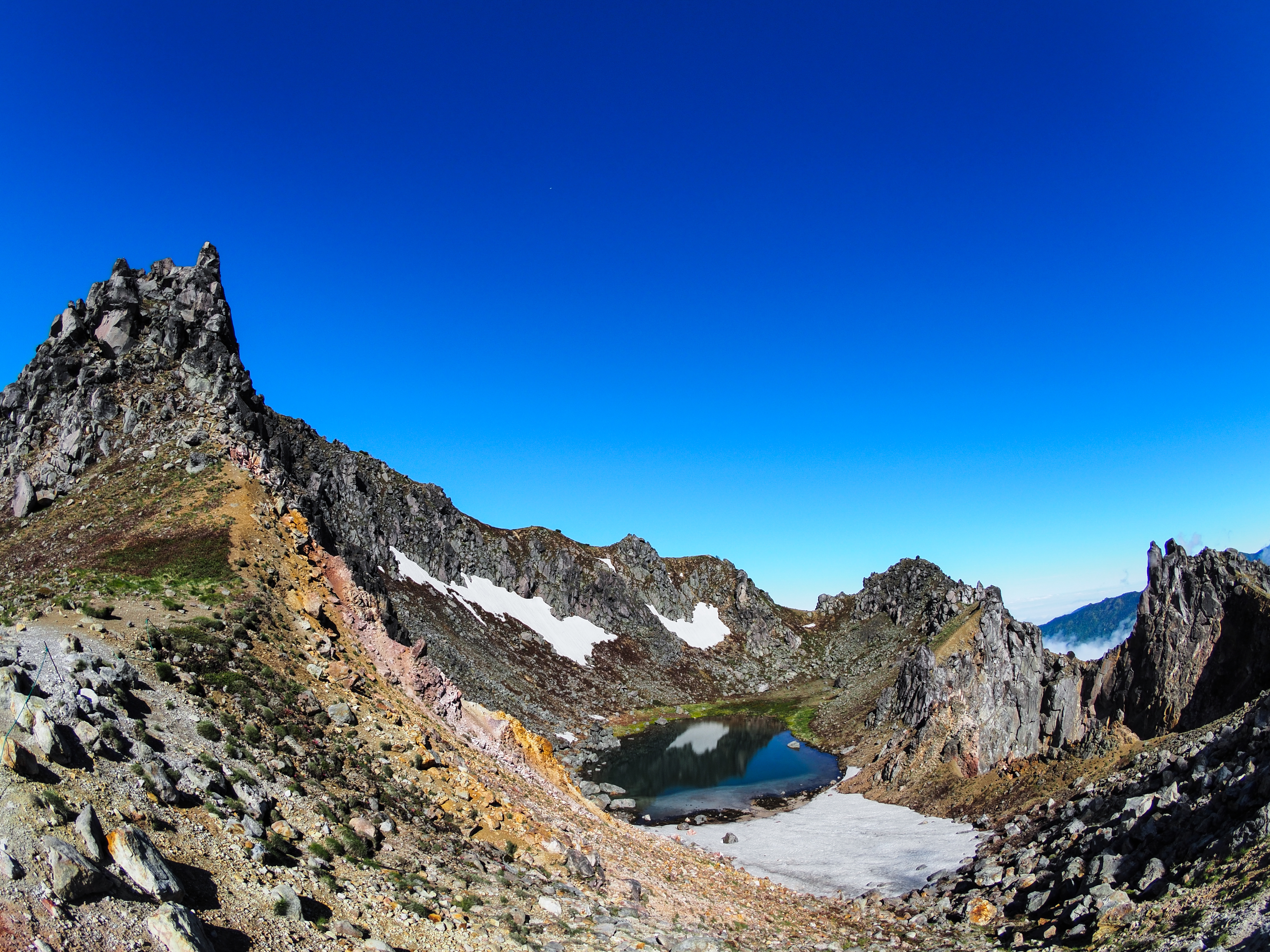 The eruption of Mt.Yake Nagano